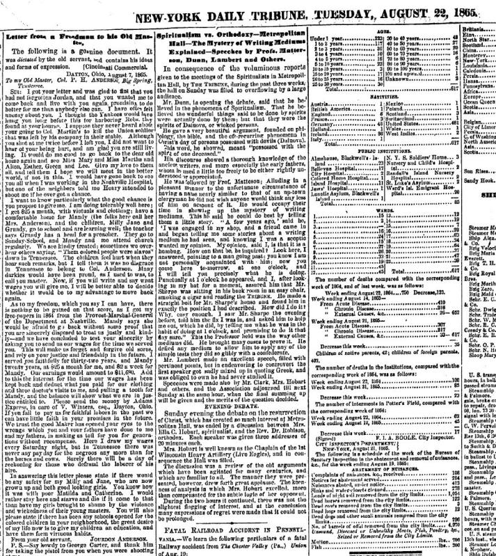 A dictated letter to his former slave master as it appeared in contemporary newspapers. It has been considered a Mark Twain-style piece of brilliant sarcasm even through it came from an illiterate ex-slave.